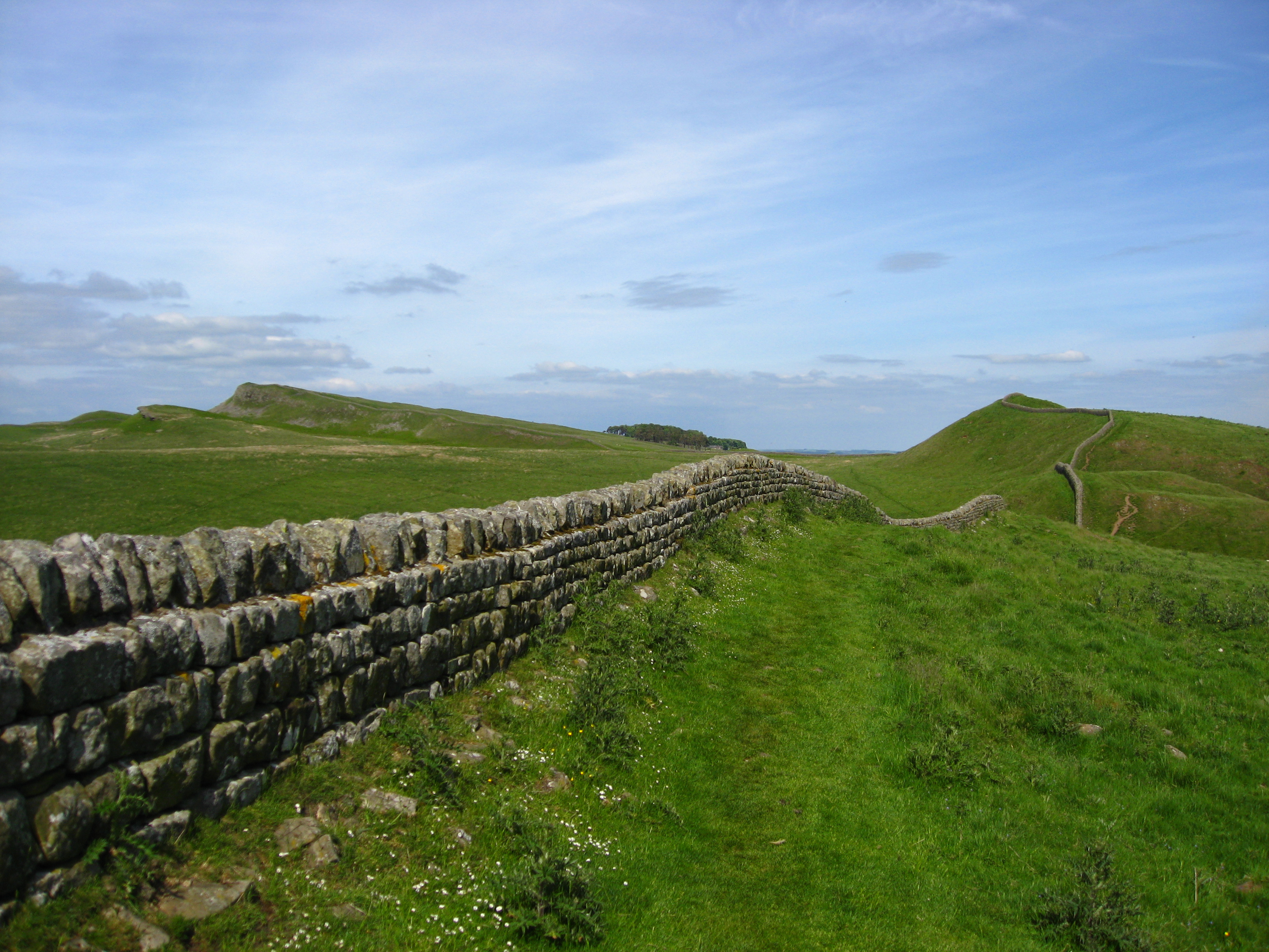 Hadrian's Wall